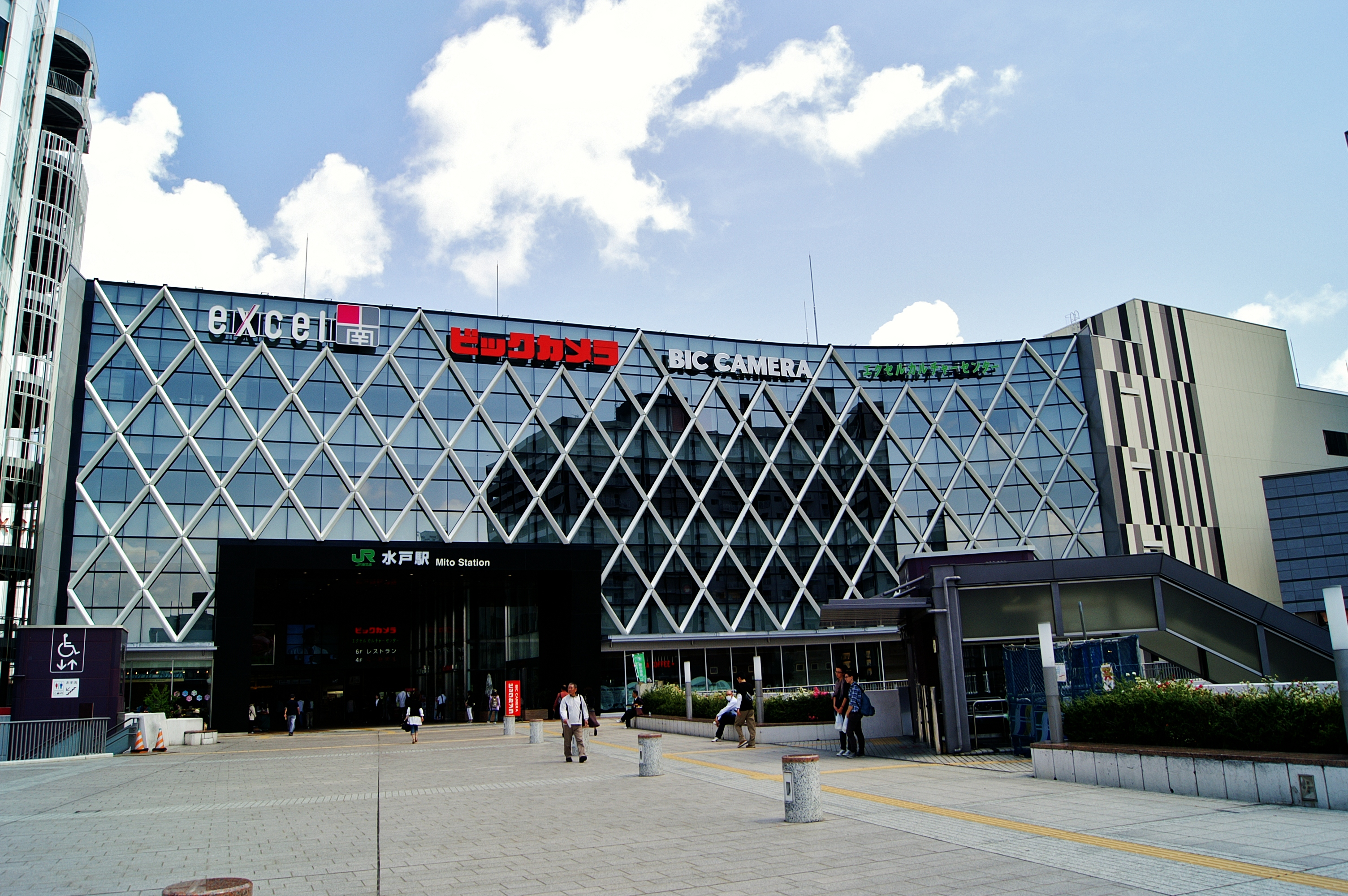 I took this picture